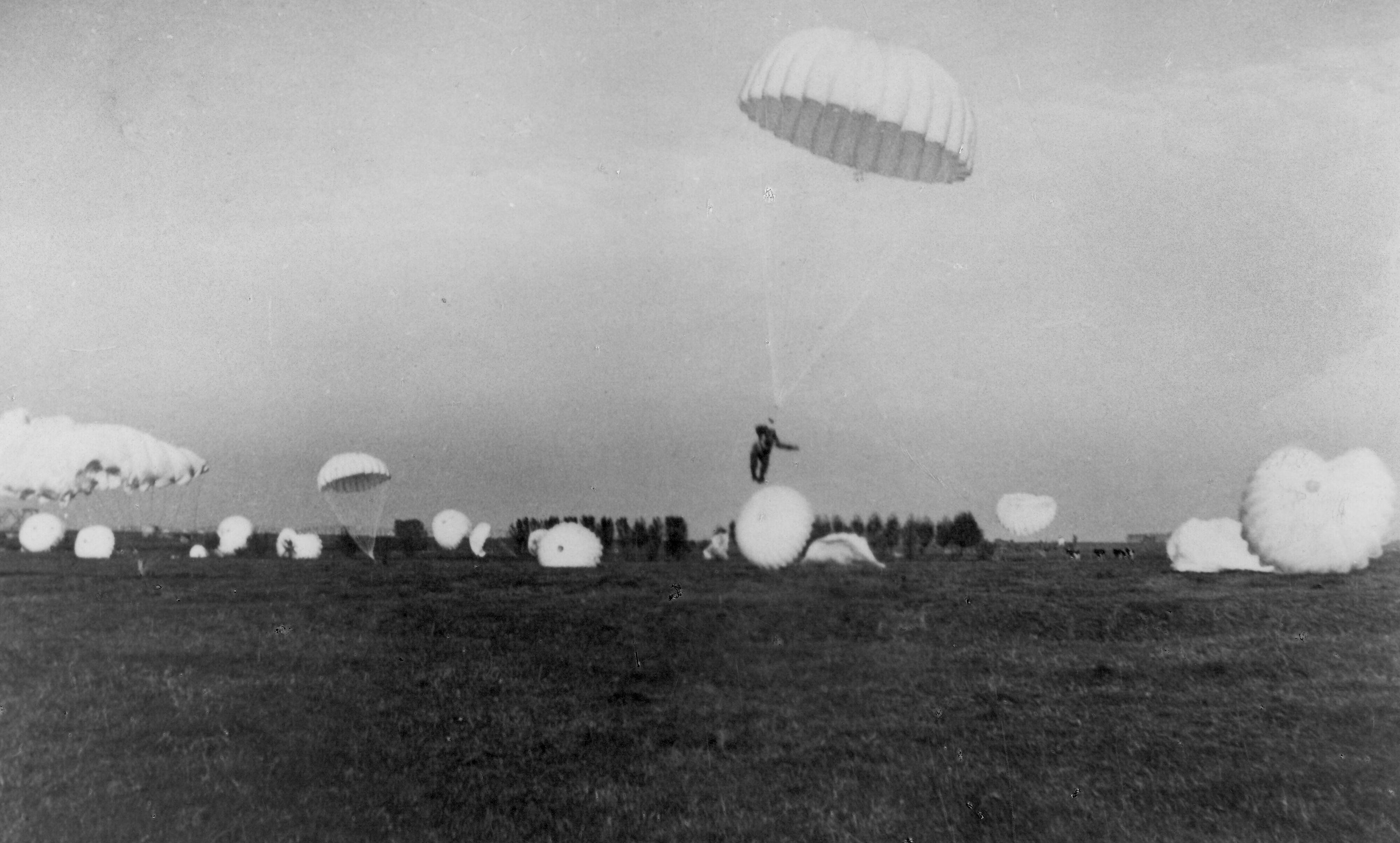 German paratroopers of the 22nd Air Landing Division under general Hans Graf von Sponeck, landing at Ockenburg airstrip near The Hague on 10 May 1940 at 04.30 hours in the morning.